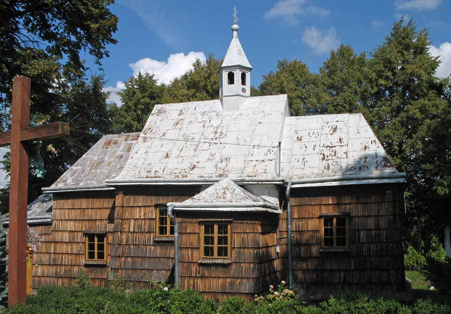 Church of the Ascension in Hawłowice, Poland (former Greek Catholic church)